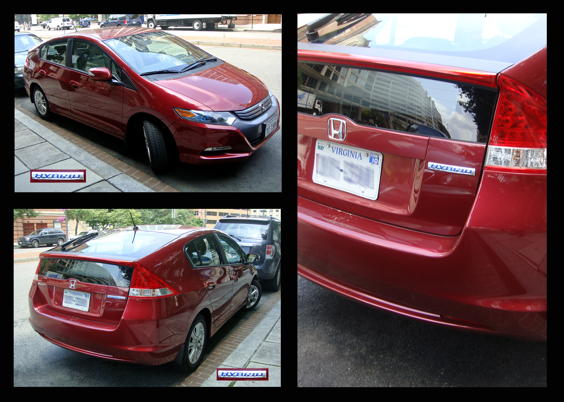 Mosaic showing three views of Honda Insight Hybrid (Washington, D.C.)